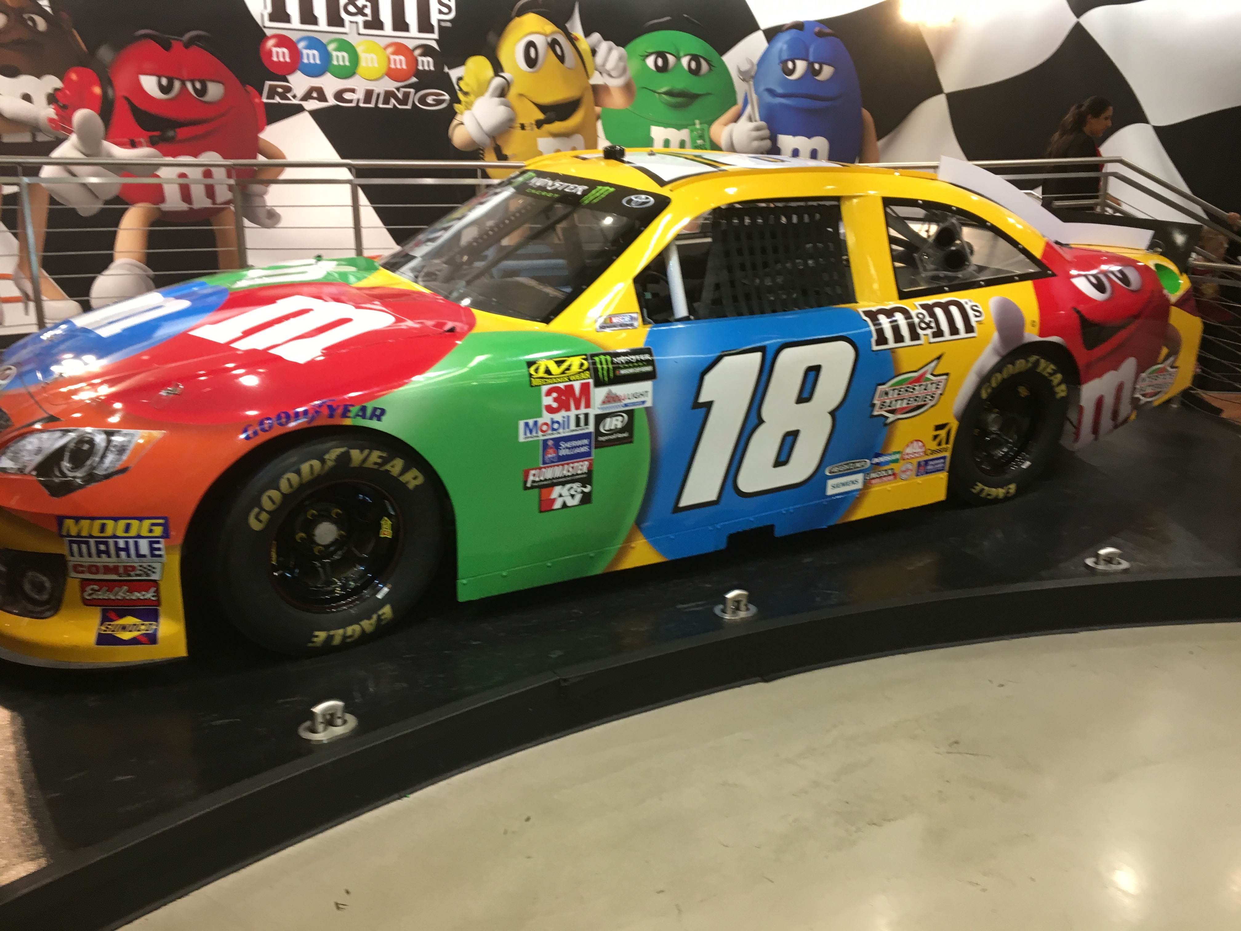 The No. 18 M&M's car located at M&M's World Las Vegas in 2018.